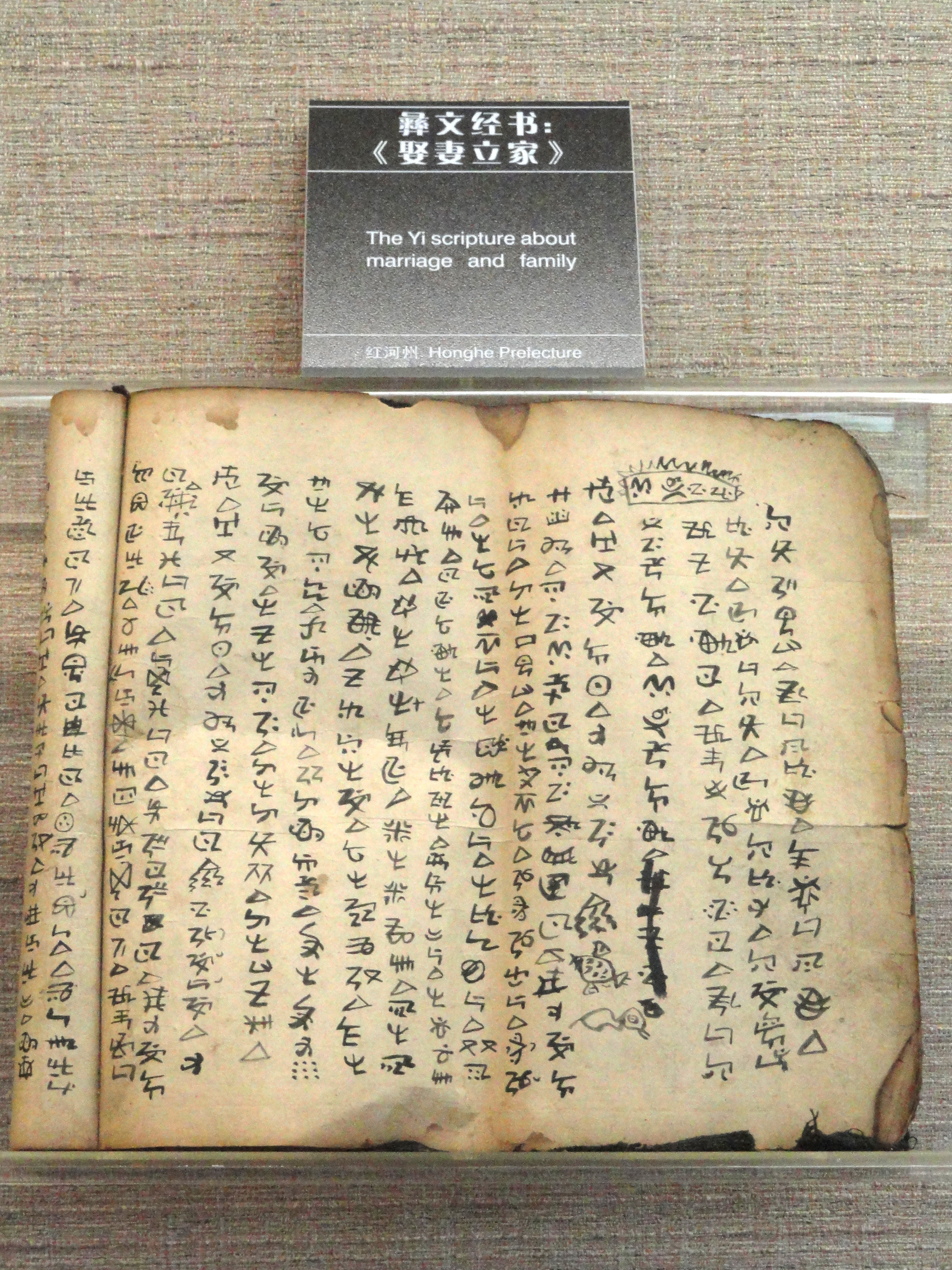 Yi religious document on marriage and family. Manuscripts / writing systems in the Yunnan Nationalities Museum, Kunming, Yunnan, China.